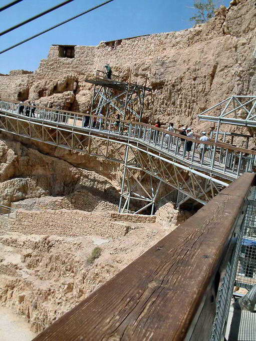 Platform Acess to Masada. More pictures of my travel in Israel at